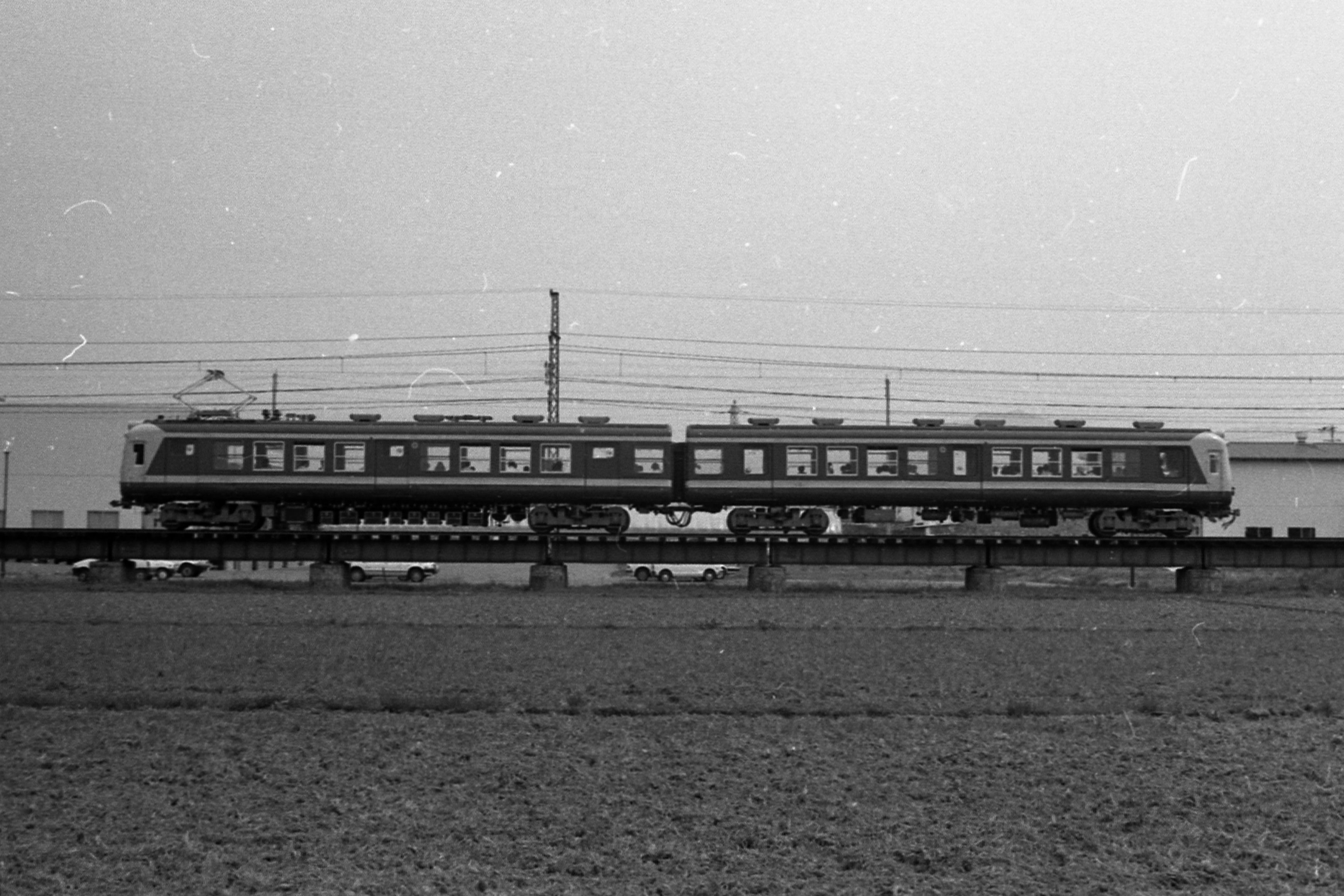 Nagaden 2503 running near Murayama station